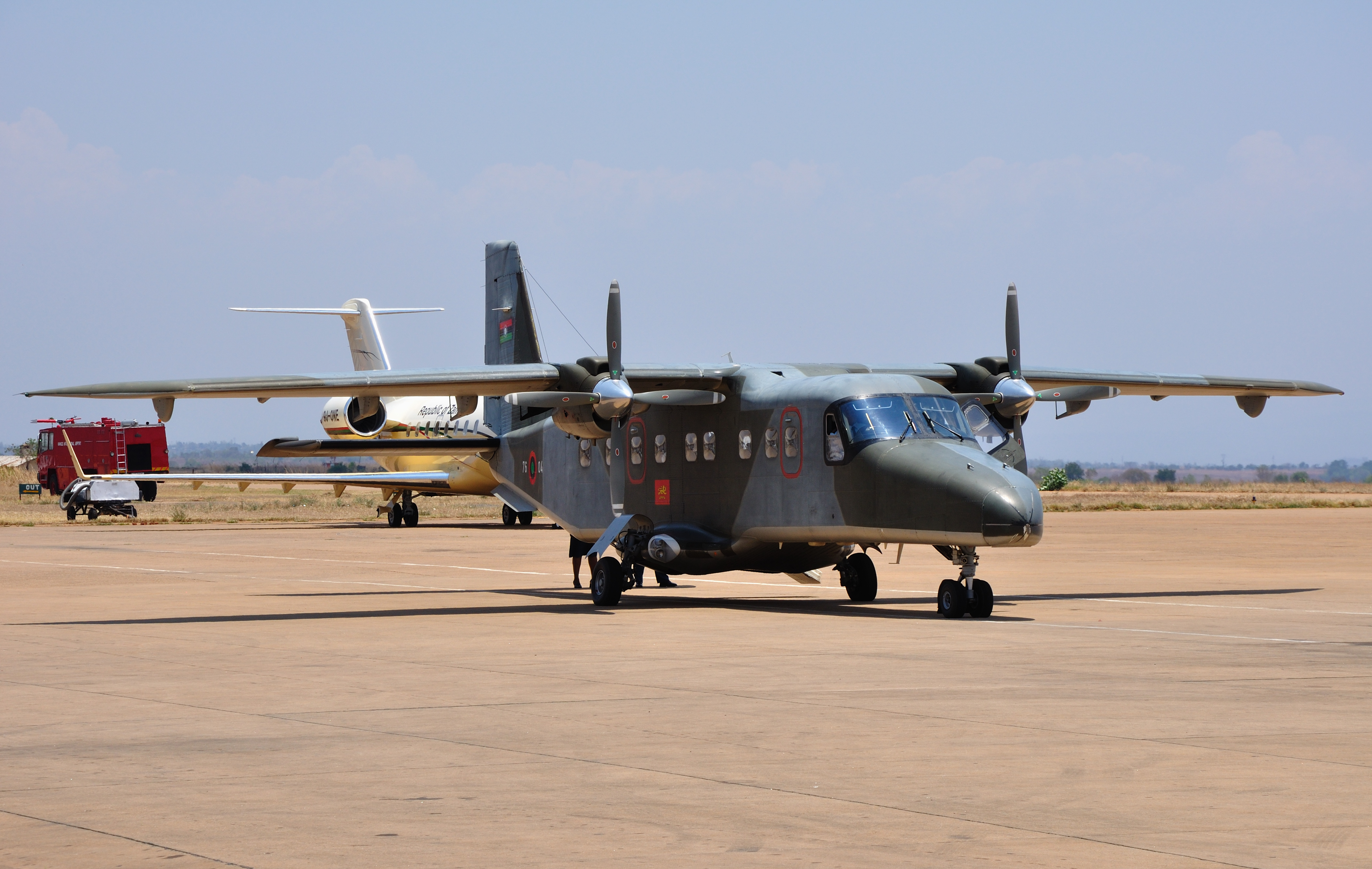 Dornier Do 228 of the Malawian Air Force at Blantyre's Chileka airport during the opening of the new Nsanje World Inland Port.